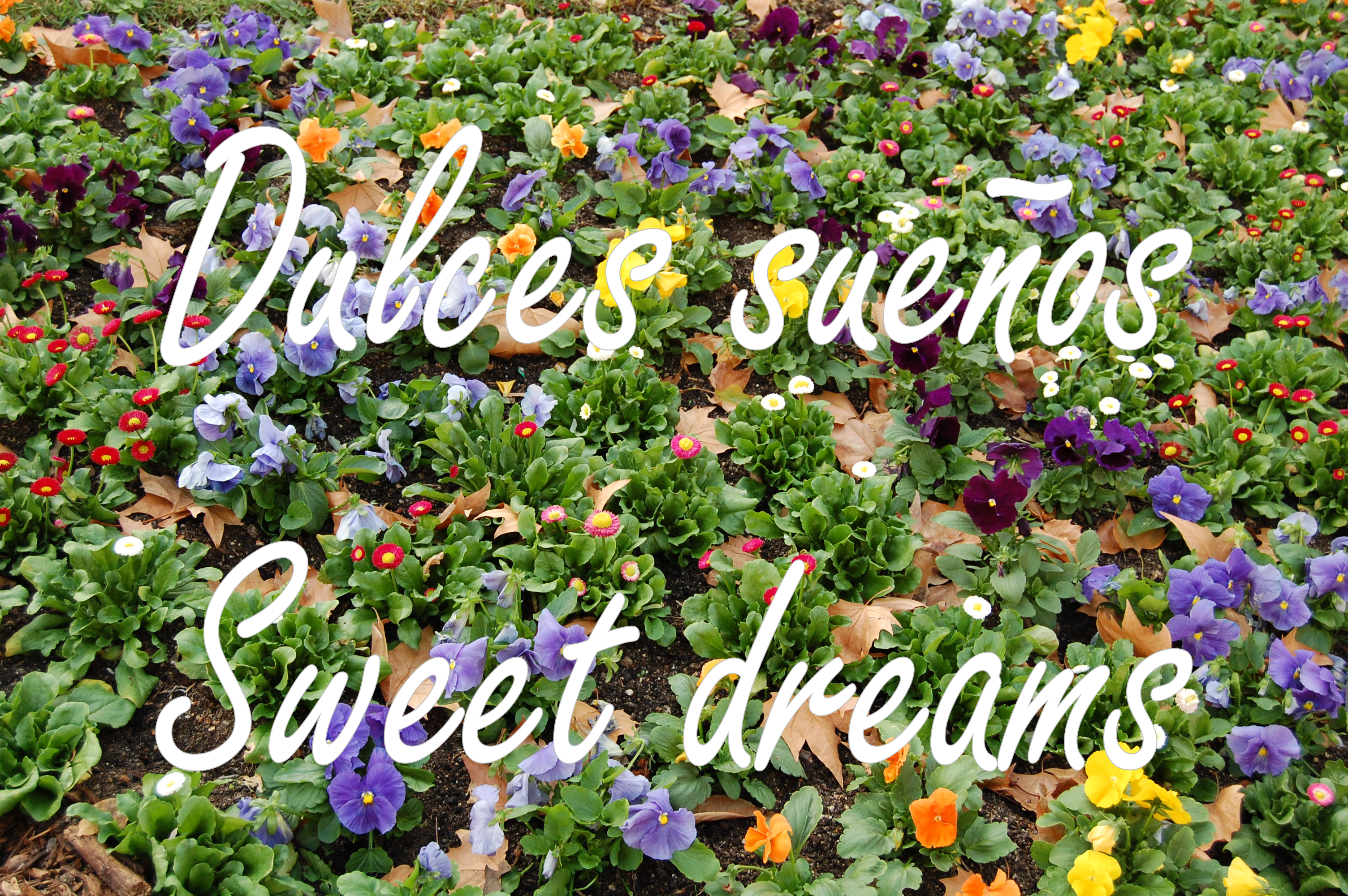 "Sweet dreams" is a cliché expression.